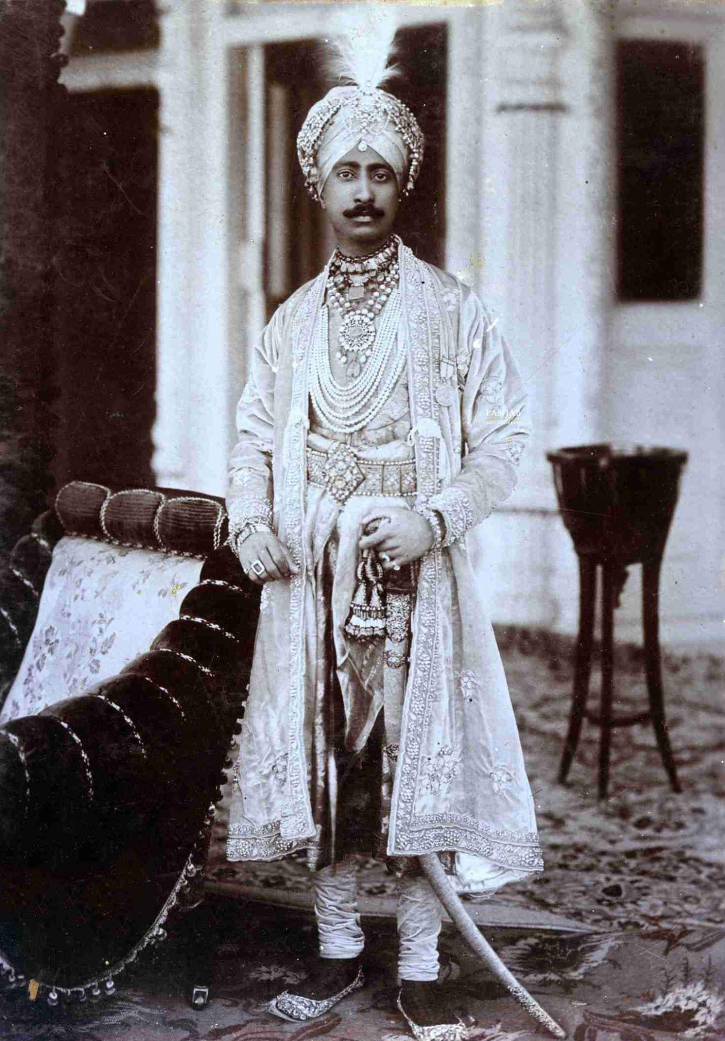 Nawab Ahmad Ali Khan Bahadur of Malerkotla